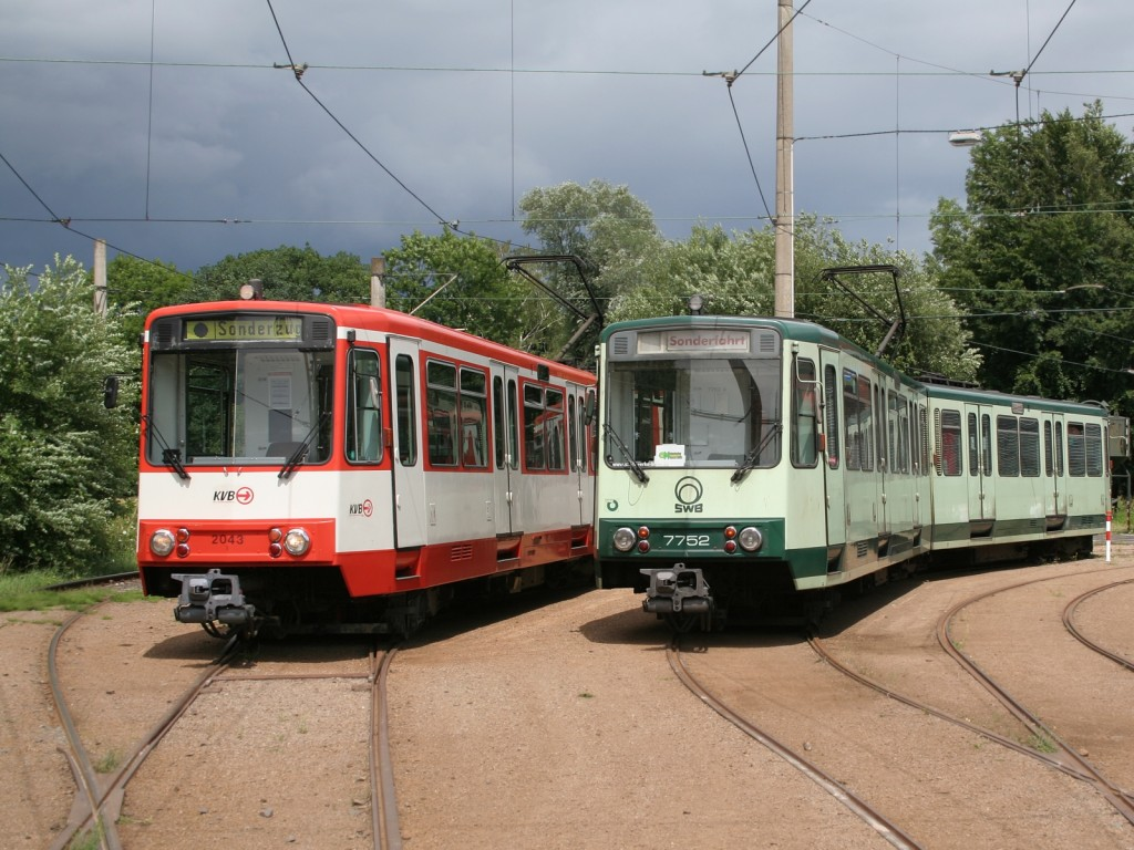 first-generation Type B light rail vehicles from both Cologne and Bonn